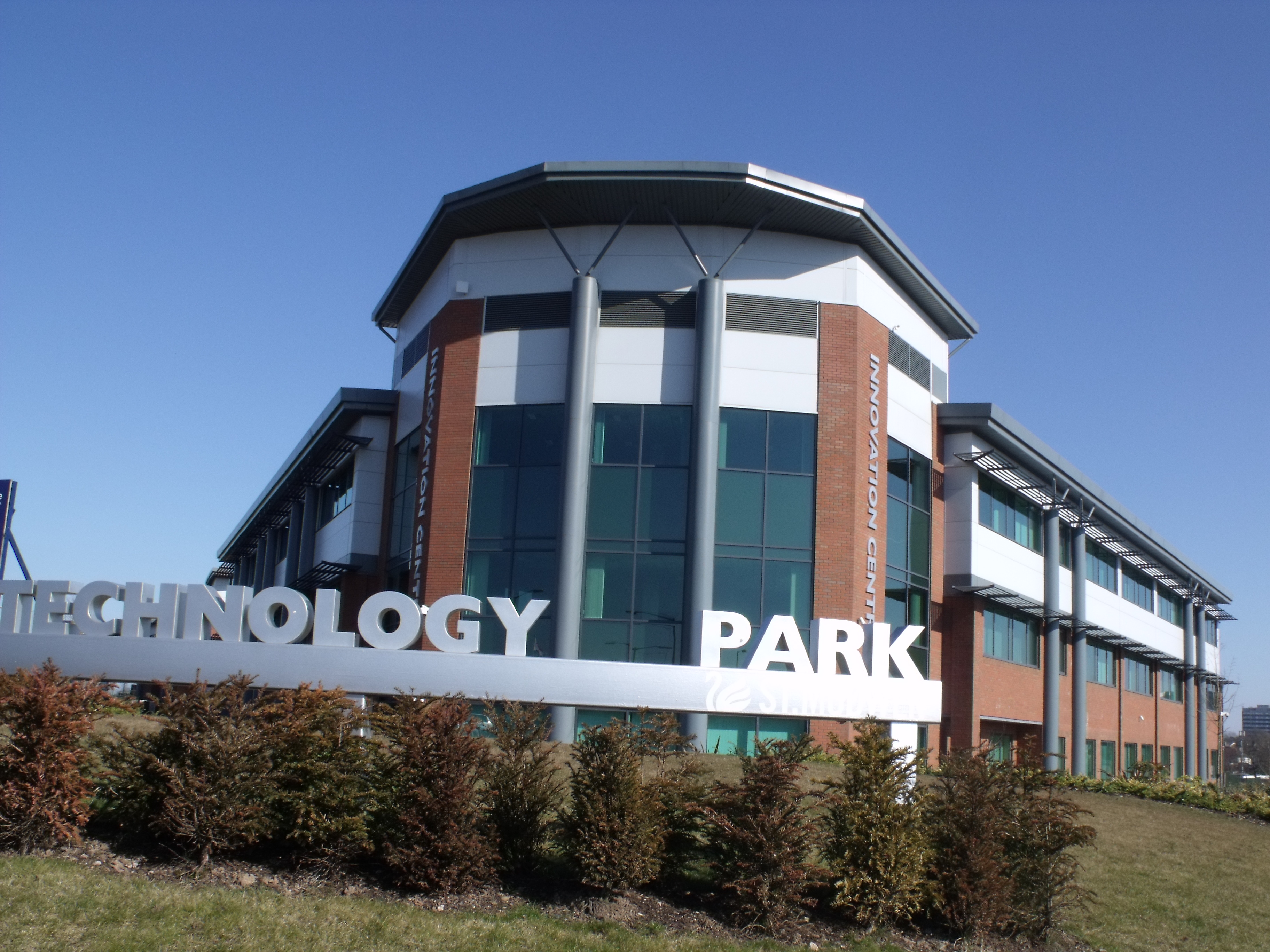 This is the Longbridge Technology Park on the Bristol Road South in Longbridge. Near the site of the former Longbridge car plant. On the right side is the Innovation Centre. The sign of the Longbridge Technology Park. The site was developed by St Modwen and Advantage West Midlands (who are also in charge of the rest of the Longbridge site). Longbridge Lane is to the right of here.